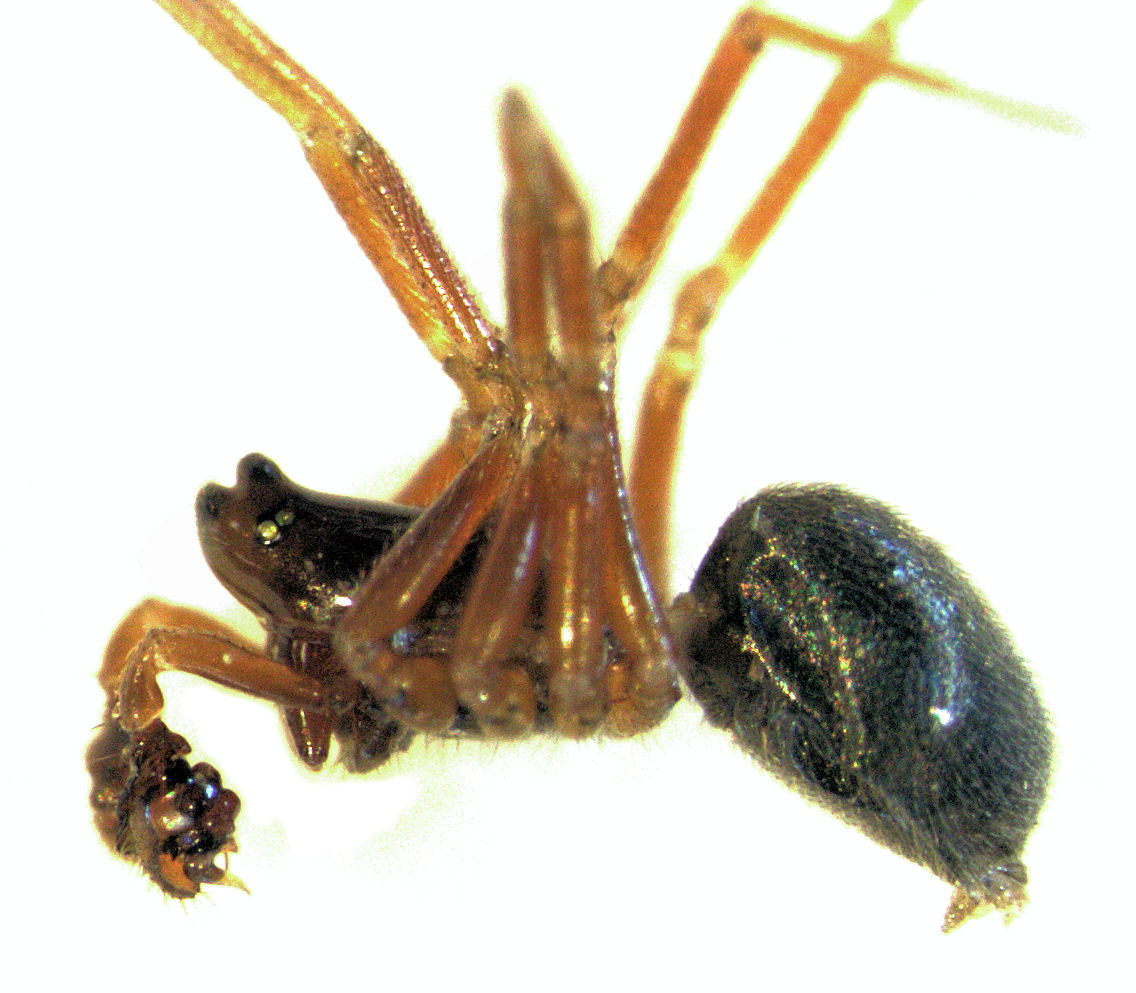 adult male Diplocephalus cristatus, body length about 2.5 mm